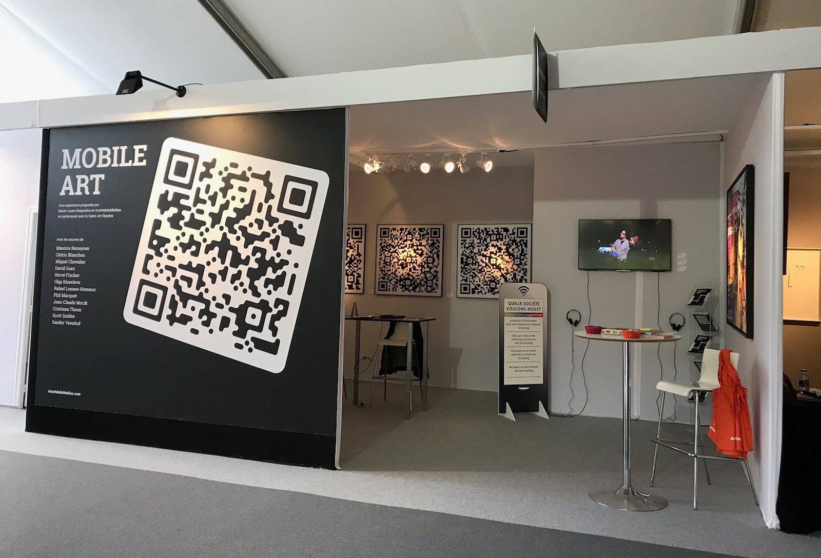 Mobile Art exhibition. October 2017, Paris